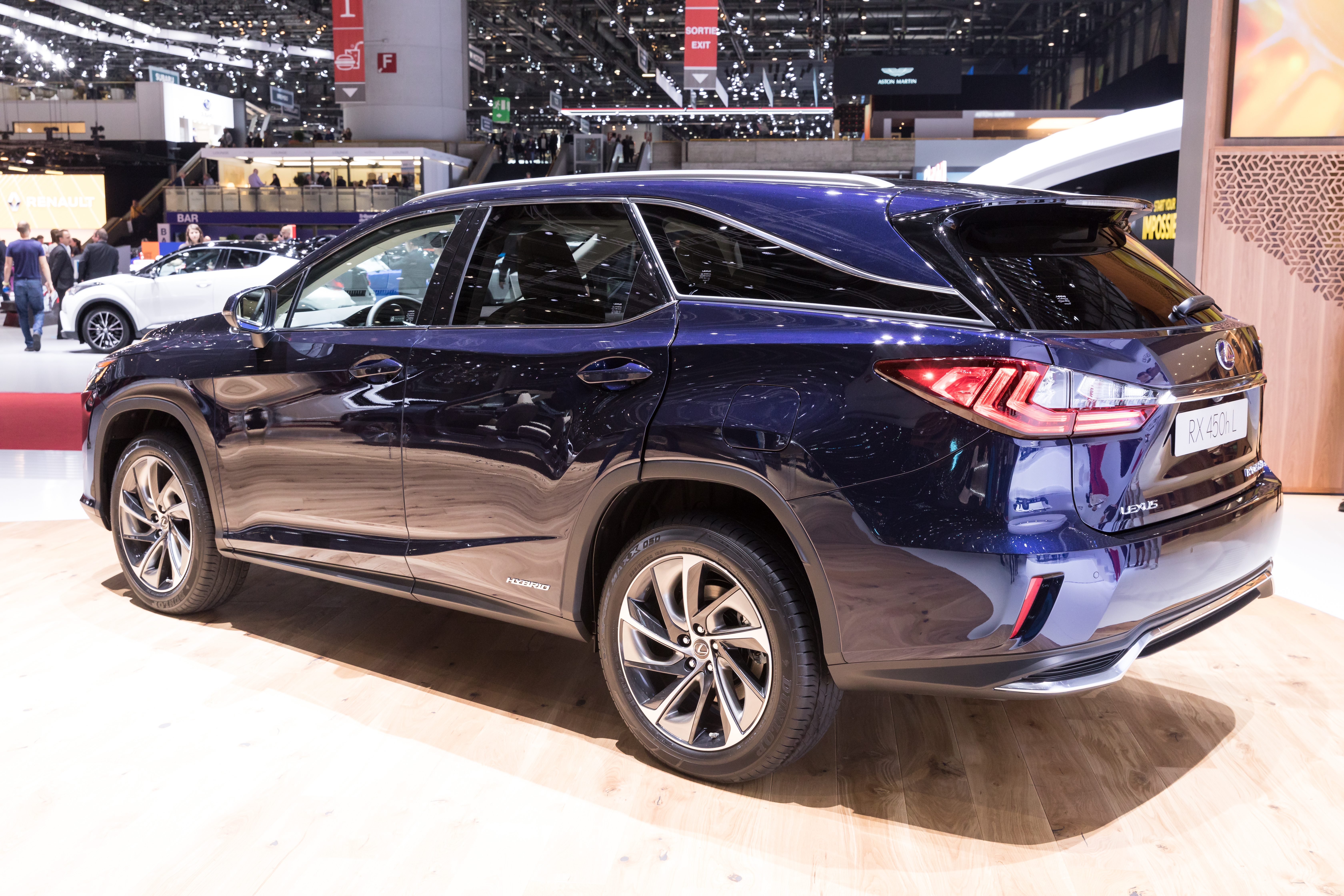 Geneva International Motor Show 2018